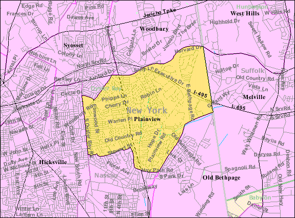 U.S. Census 2000 reference map for Plainview .